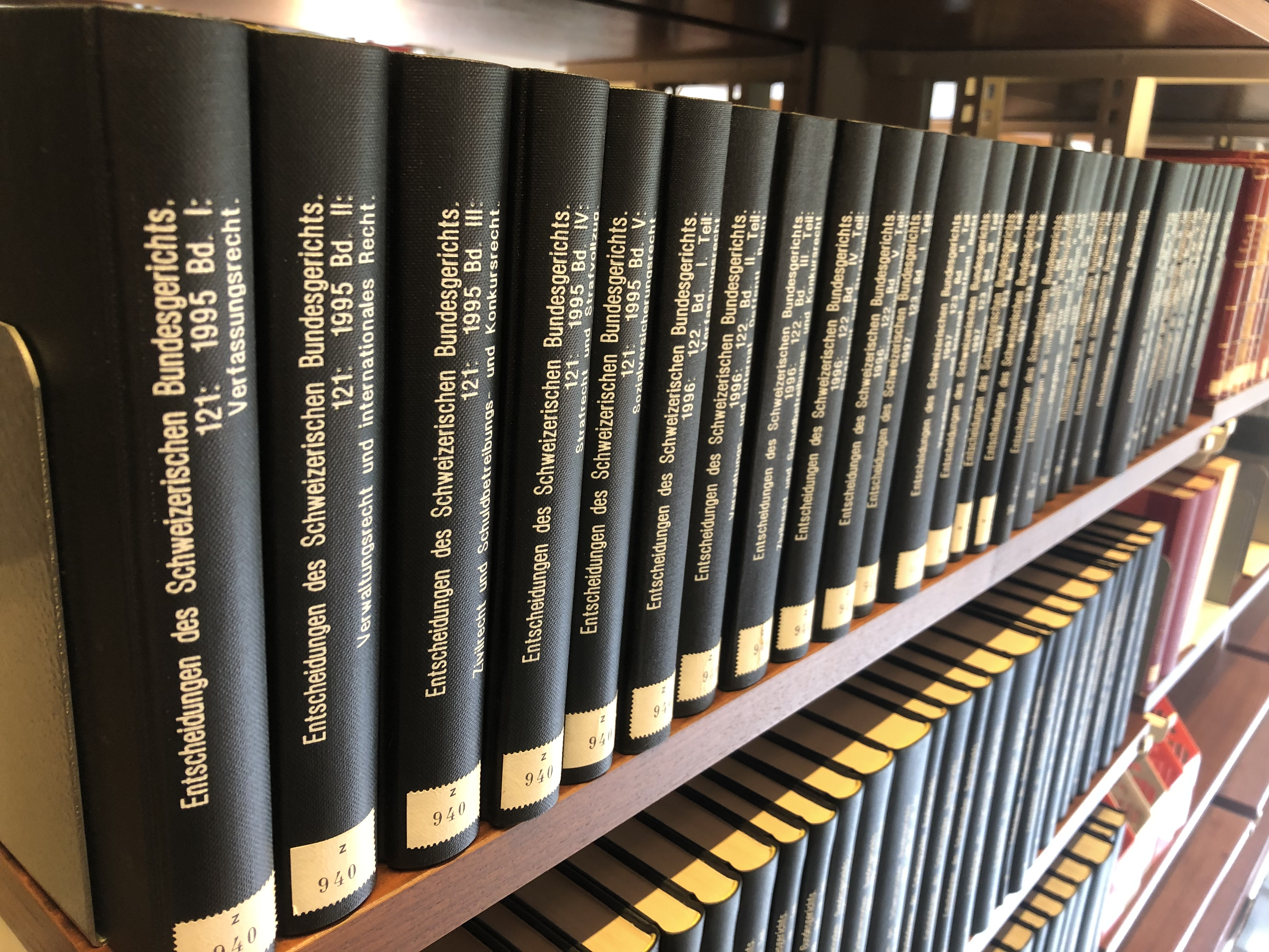 Volumes of the Official Collection of the Rulings of the Federal Tribunal in the Parliamentary Library, Bern